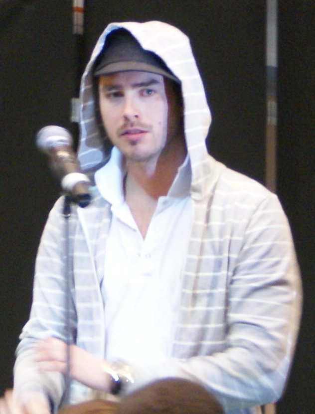 Mattias Andréasson during a public performance in Mitt i City, Karlstad, Sweden.